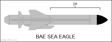 Air-to-surface missile: "Sea Eagle"